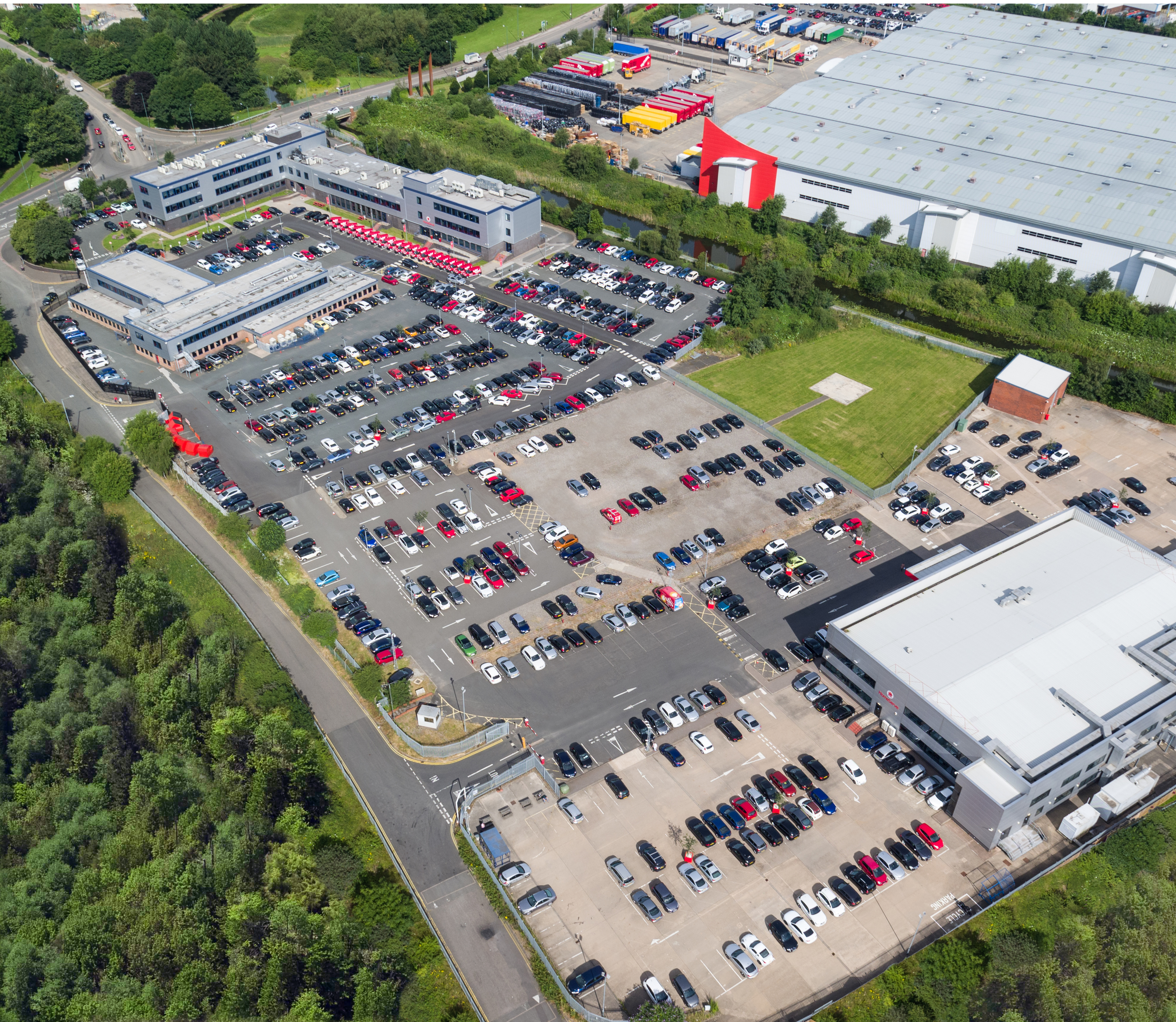 An aerial shot of HomeServe's headquarters in Cable Drive, Walsall, UK.